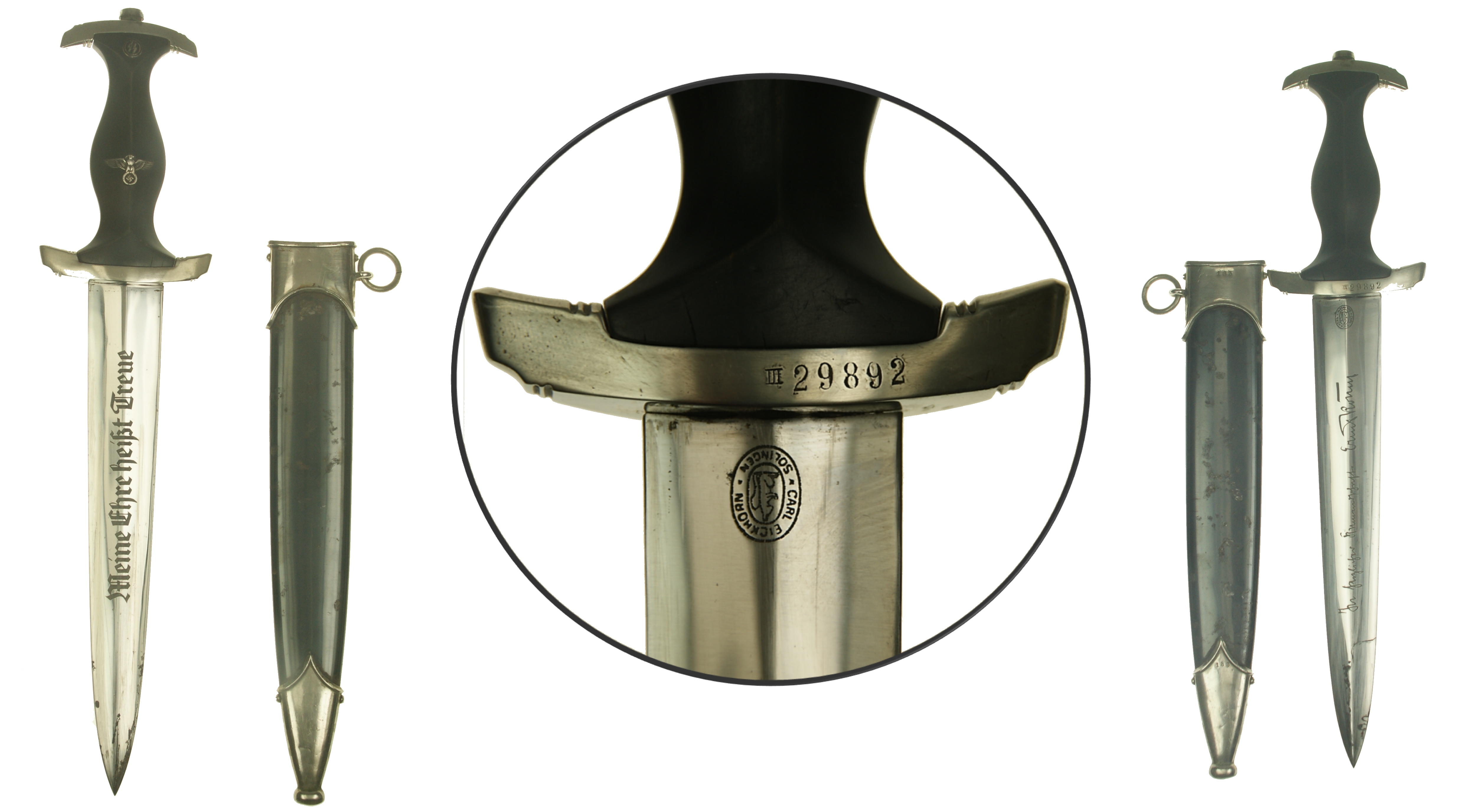 Weapons of honour of the Third Reich until 1945, here “Honorary-dagger of the SS” of Hermann Pister SS-Number: 29892.